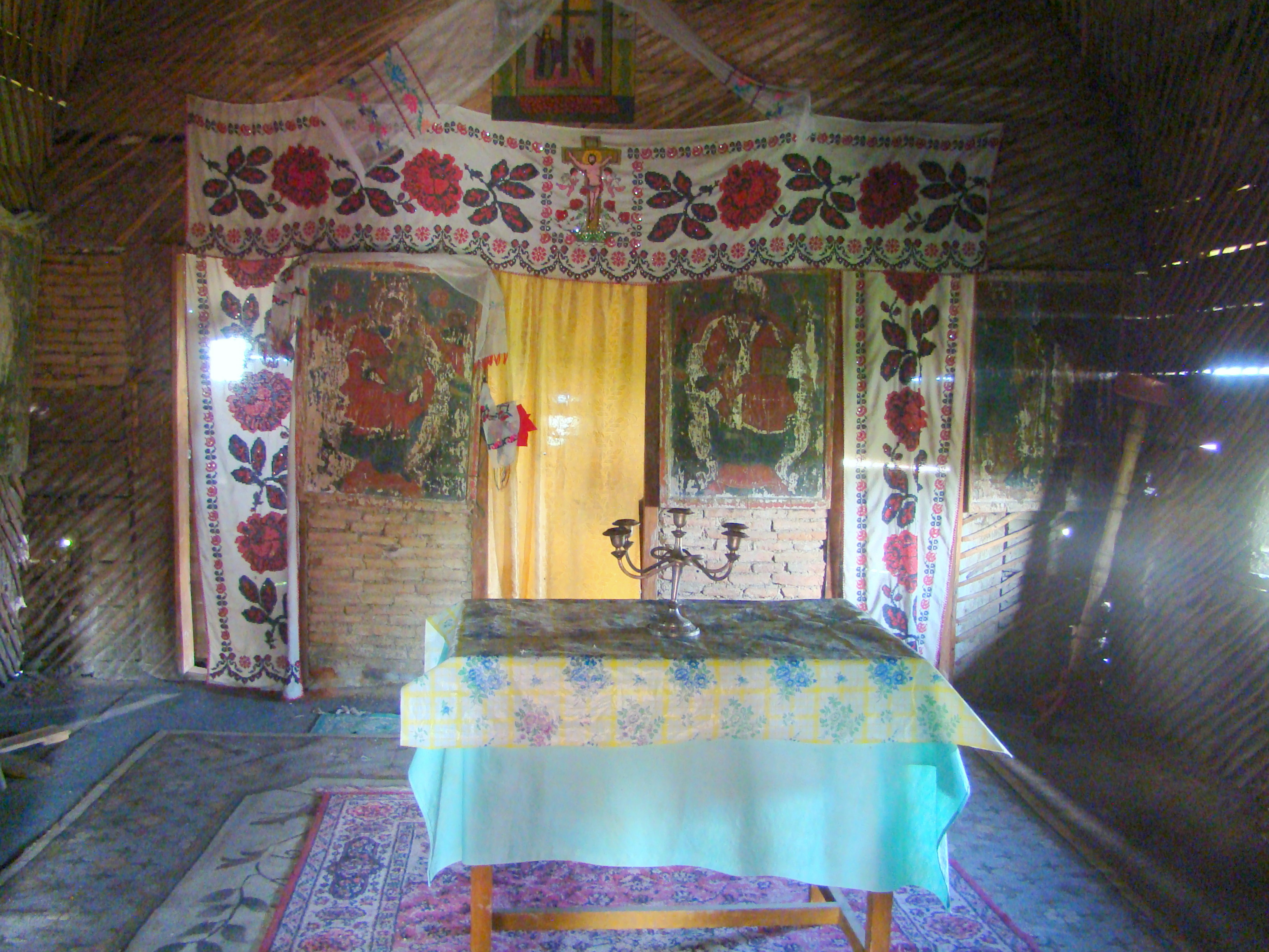 Wooden church in Bobu-Gorgania, Gorj county, Romania